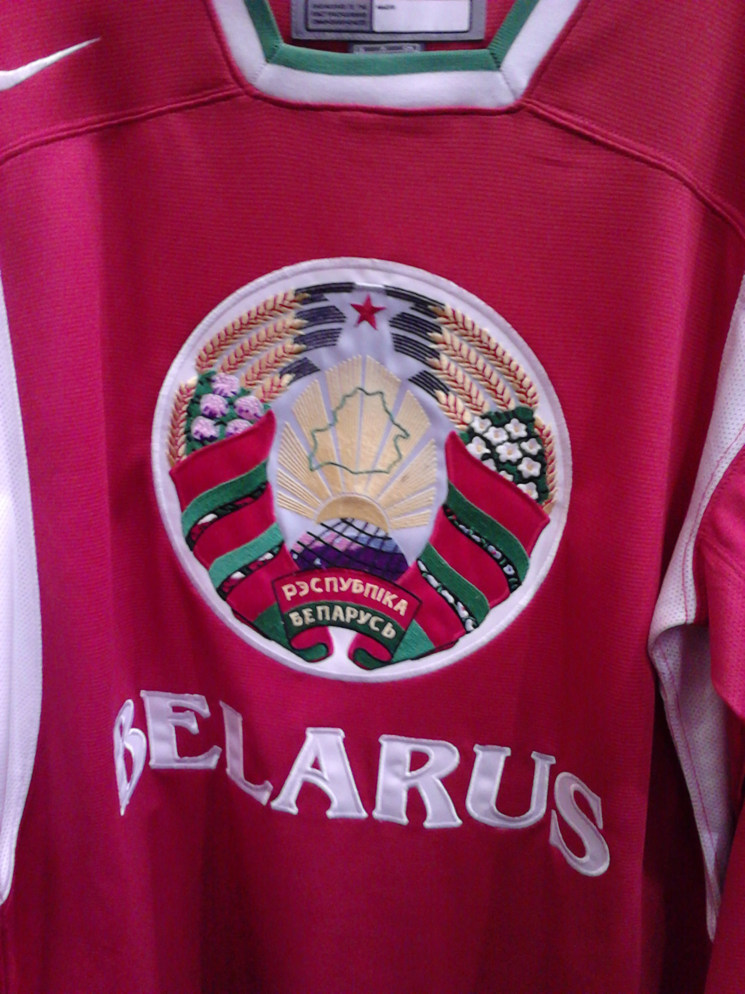 Emblem of Belarus on the jersey of its national team.